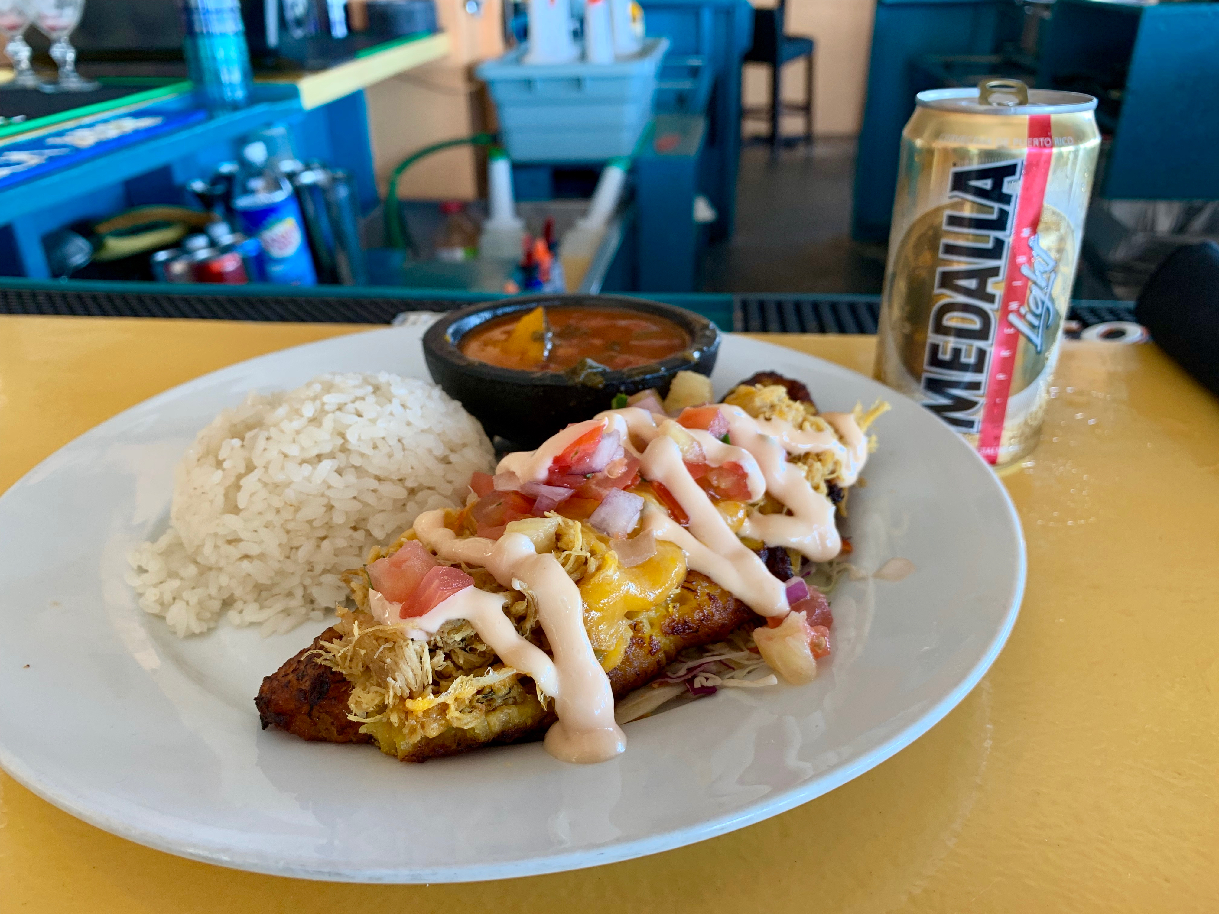 Typical Plantains Lunch